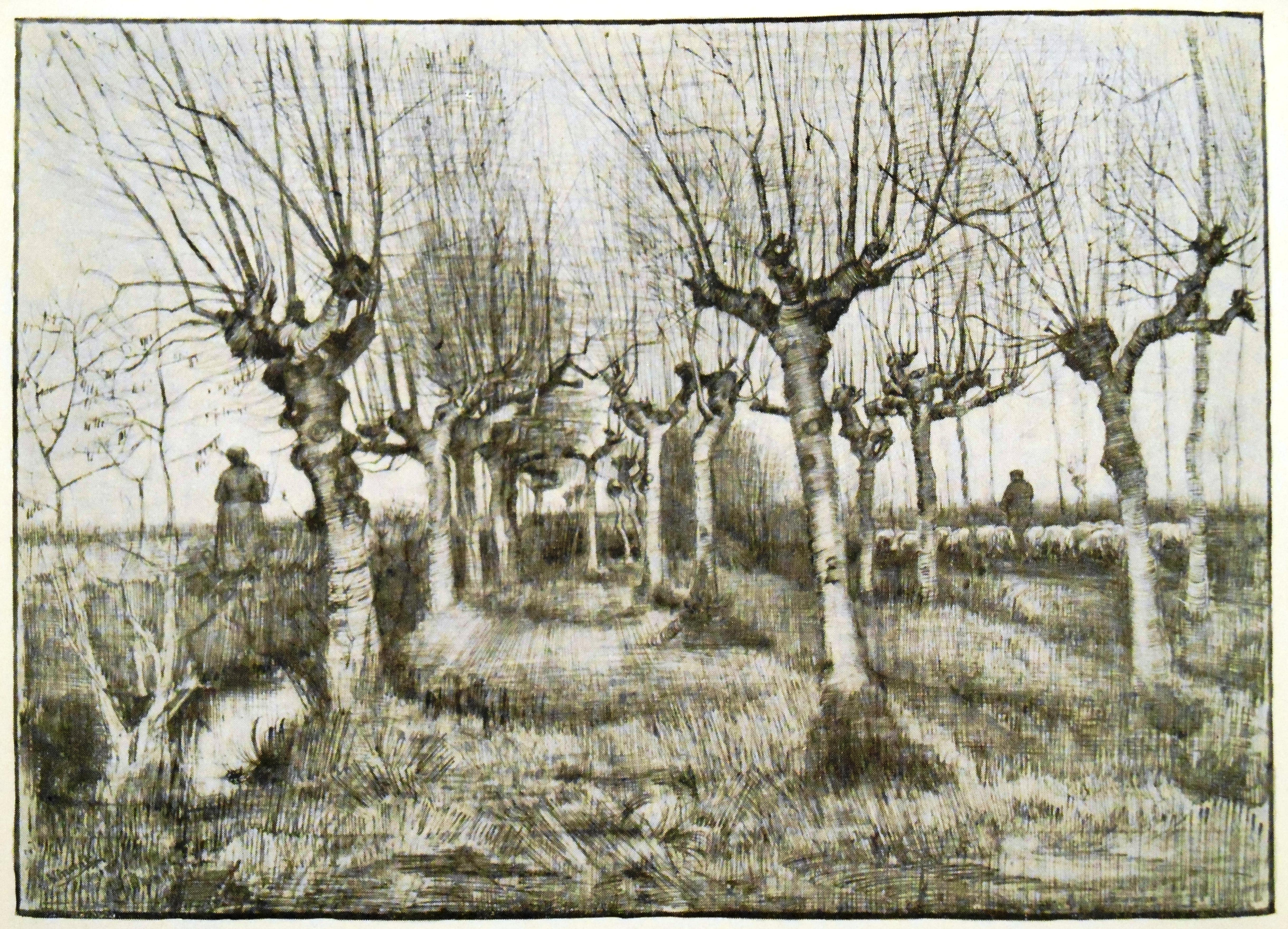 Pollardbirches and shepherd Pen and pencil F 1240, 15¾ x 21½ inches